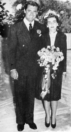 Cary Grant & his wife Barbara Hutton, 1942